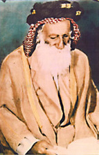 Shiekh Kansafra/Kanzfra Dakhayyel Eydan (1881-1964),The Mandaean faith bishop